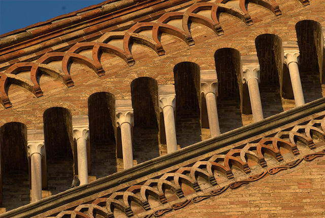 Architectural detail of the Cathedral of Crema